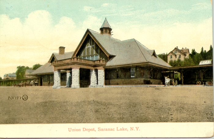 A postcard of Saranac Lake Union Depot ca. 1910